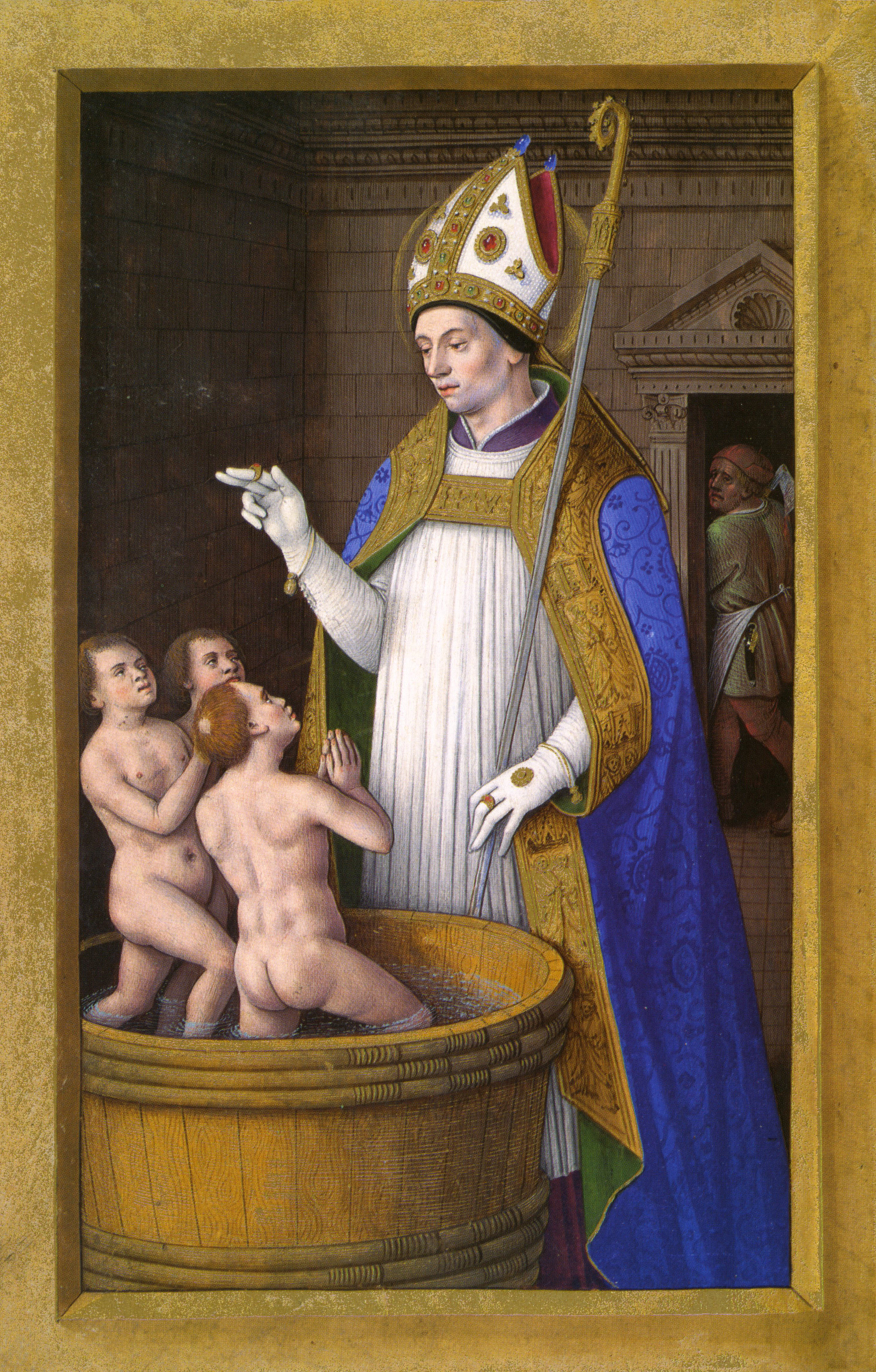 saint Nicolas de Heures d'Anne de Bretagne